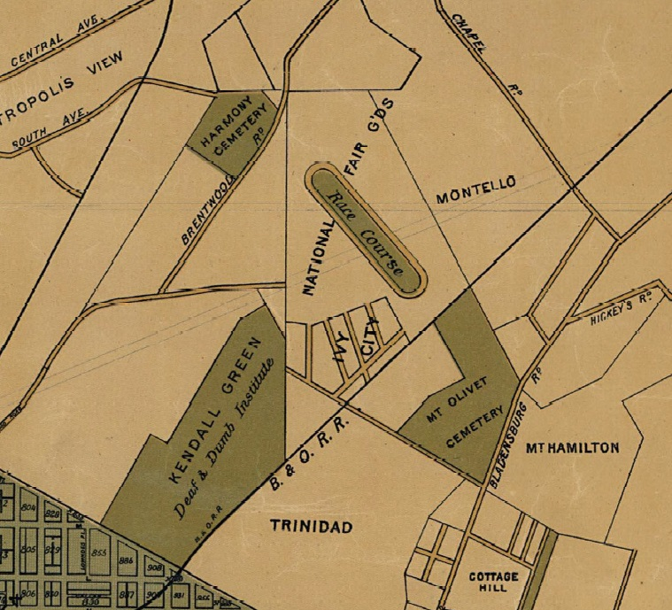 A map of the District of Columbia from 1887, showing the location of Ivy City, the Ivy City Racecourse, and other local points of interest.